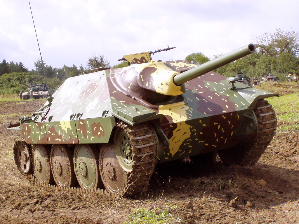 German Jagdpanzer 38(t) more known as 'Hetzer' tank destroyer in Military Technical Museum Lešany.